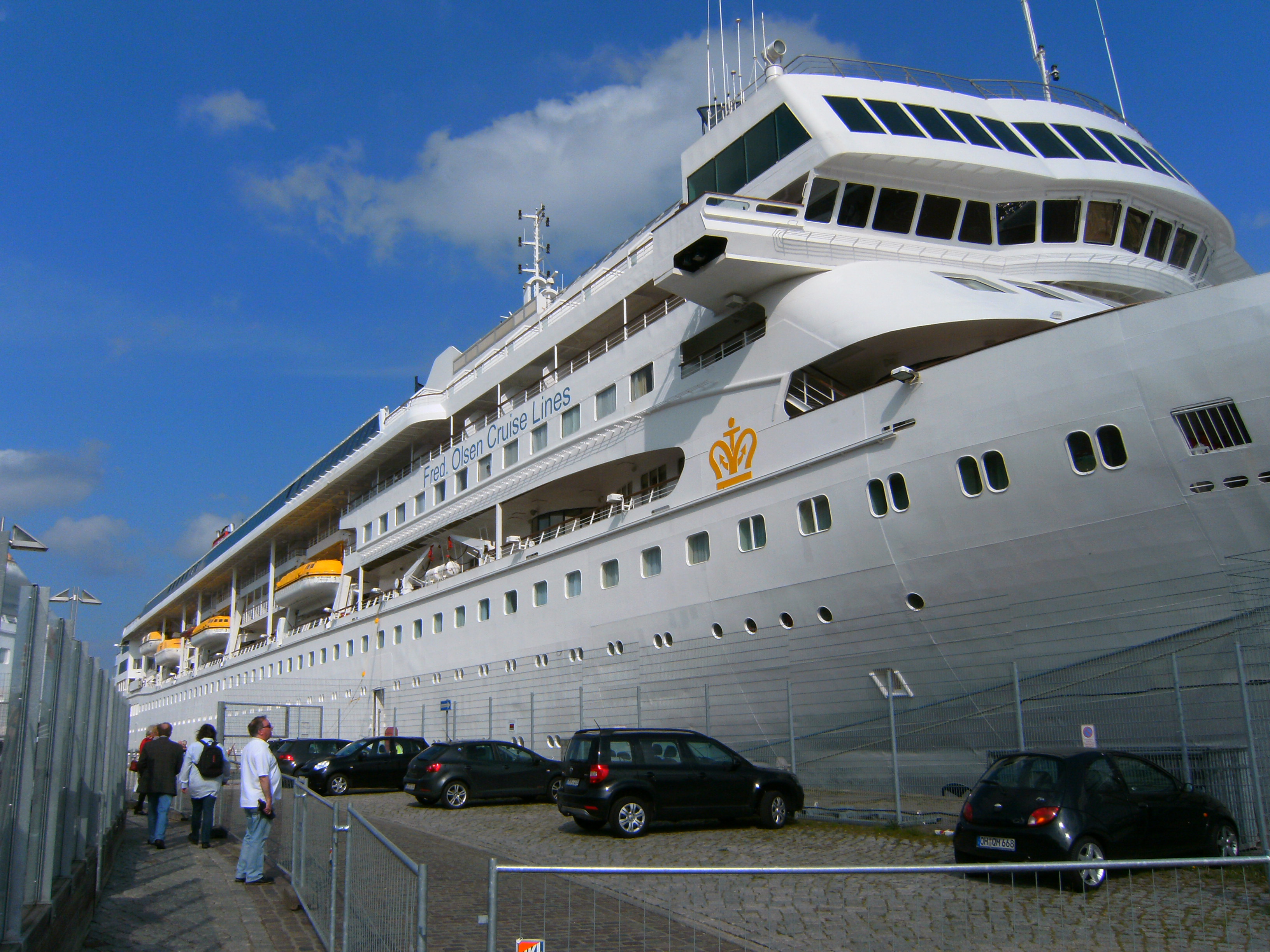 Braemar (ship, 1993) at Ostpreußenkai in Lübeck-Travemünde, Germany in 2015.